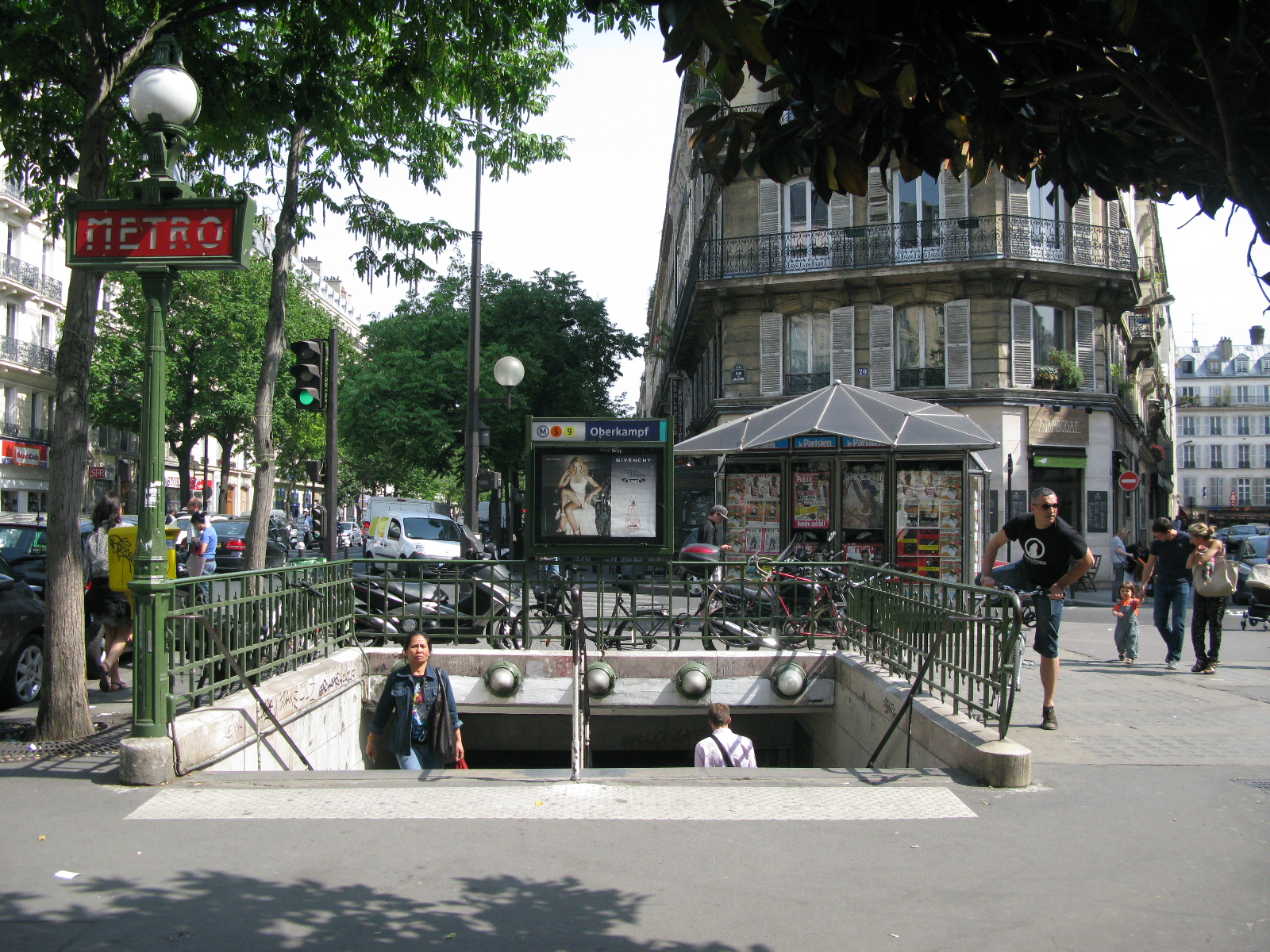 Malta street exit of Oberkampf subway station, Paris.